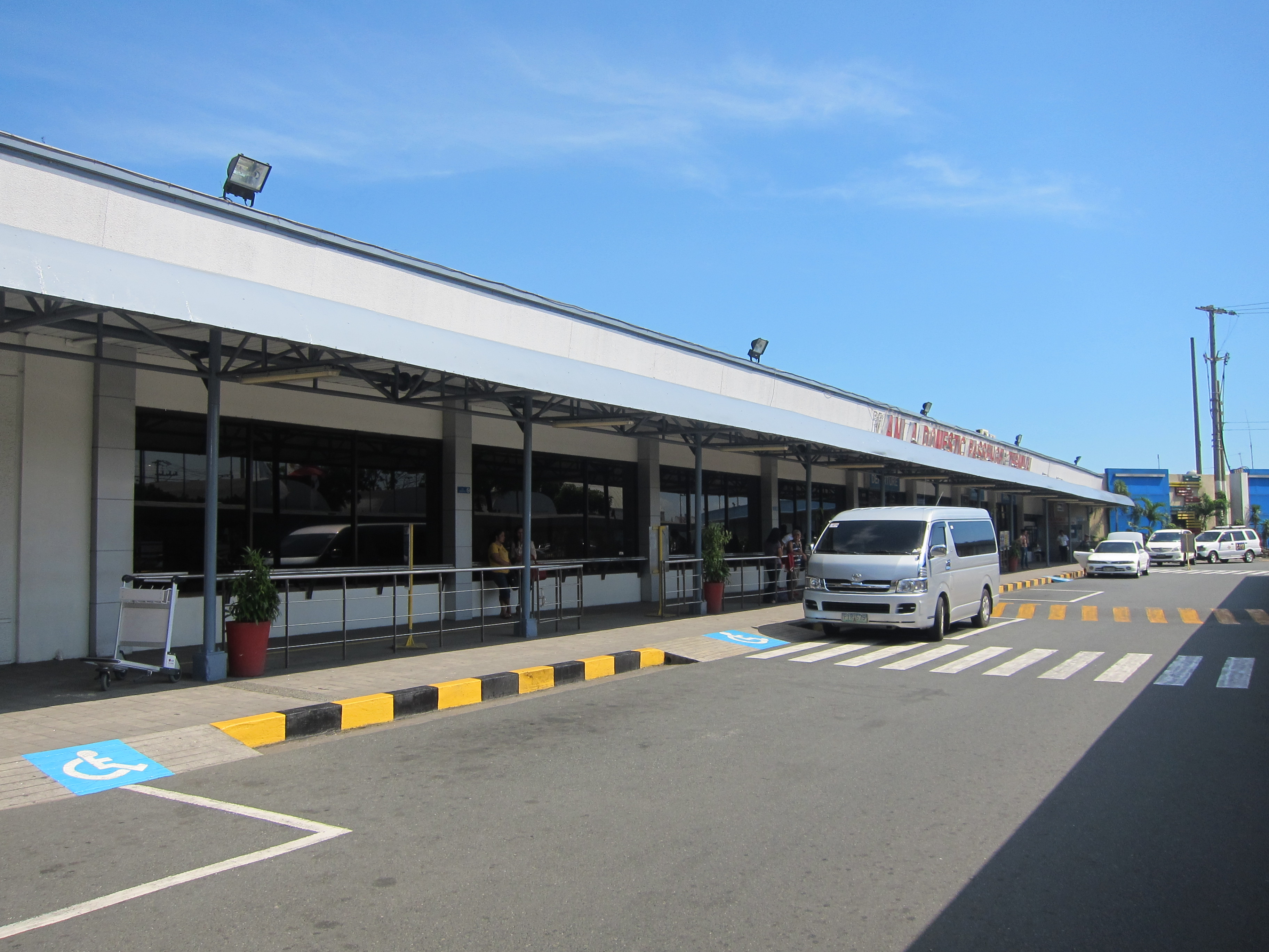 Exterior of Ninoy Aquino International Airport Terminal 4, formerly called the Manila Domestic Passenger Terminal.Tagalog: Labas ng Terminal 4 ng Paliparang Pandaigdig ng Ninoy Aquino, na dating Manila Domestic Passenger Terminal (Terminal Pampasaherong Domestiko ng Maynila).